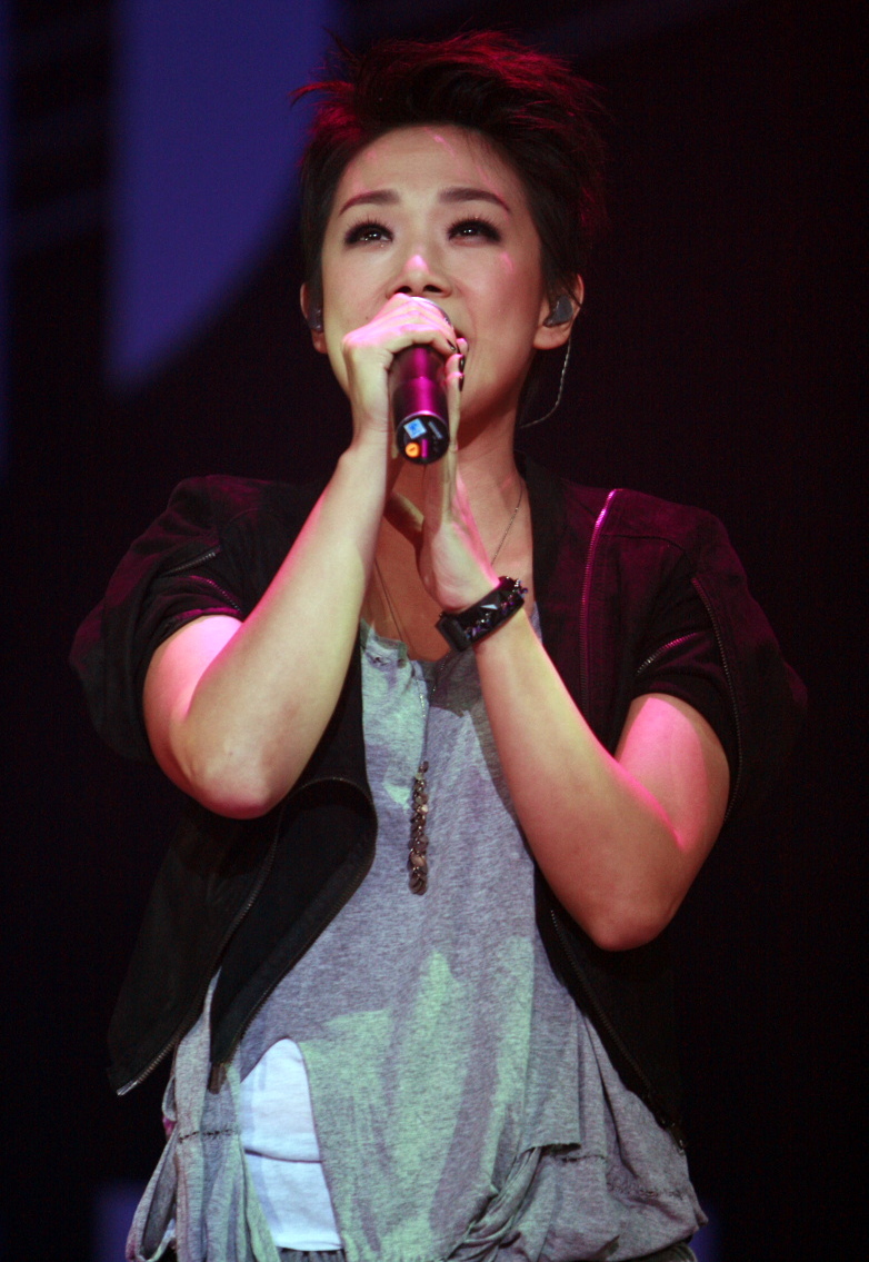 Sandy Lam 2009Bân-lâm-gú: Lîm Ik-liân. 林憶蓮